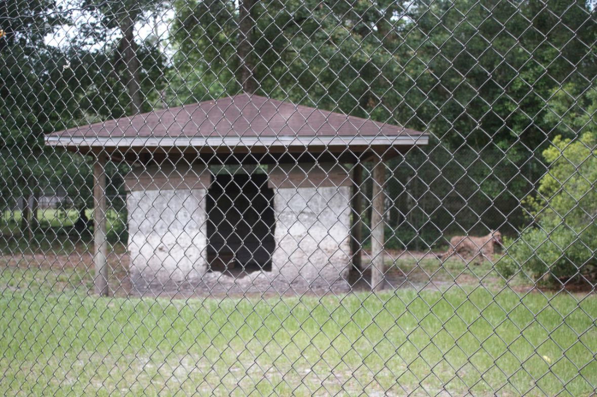 A cheetah runs behind the remnants of a building from the Kingsley era at White Oak Plantation.